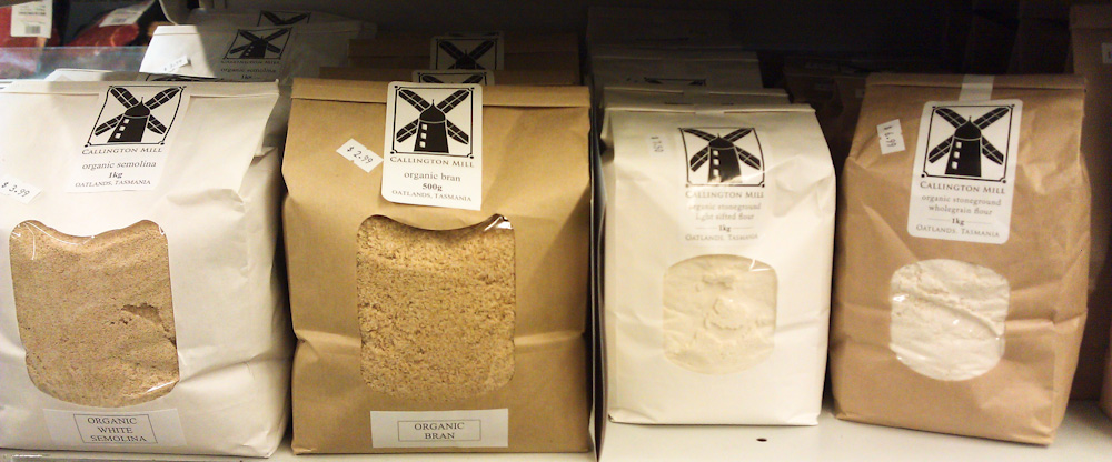 Different types of flour ground at the Callington Mill, Oatlands, Tasmania